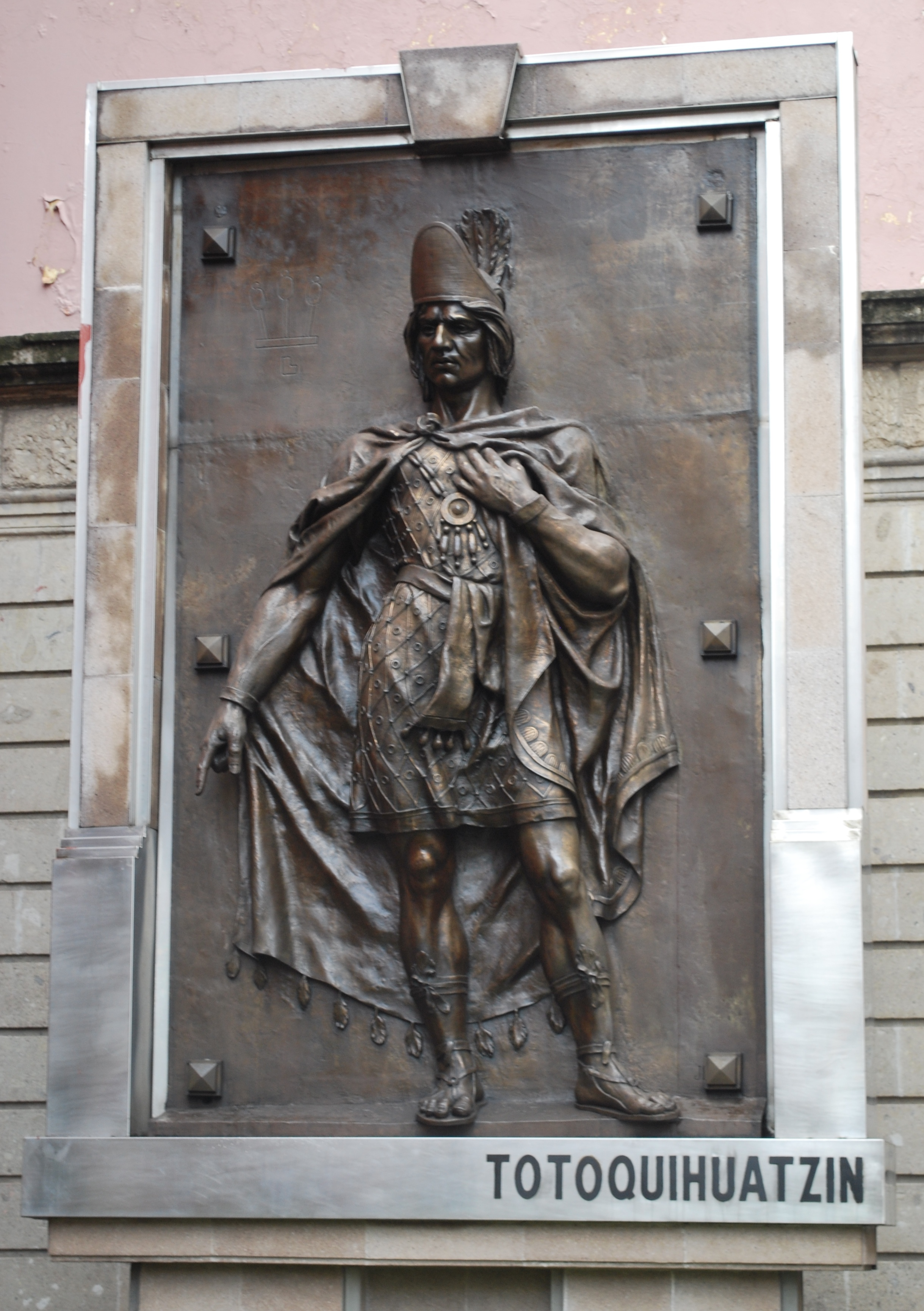 Bronze casting of Totoquihuatzin by Jesús F. Contreras in the Garden of the Triple Alliance on Filomeno Mata street, in the historical center of Mexico City.